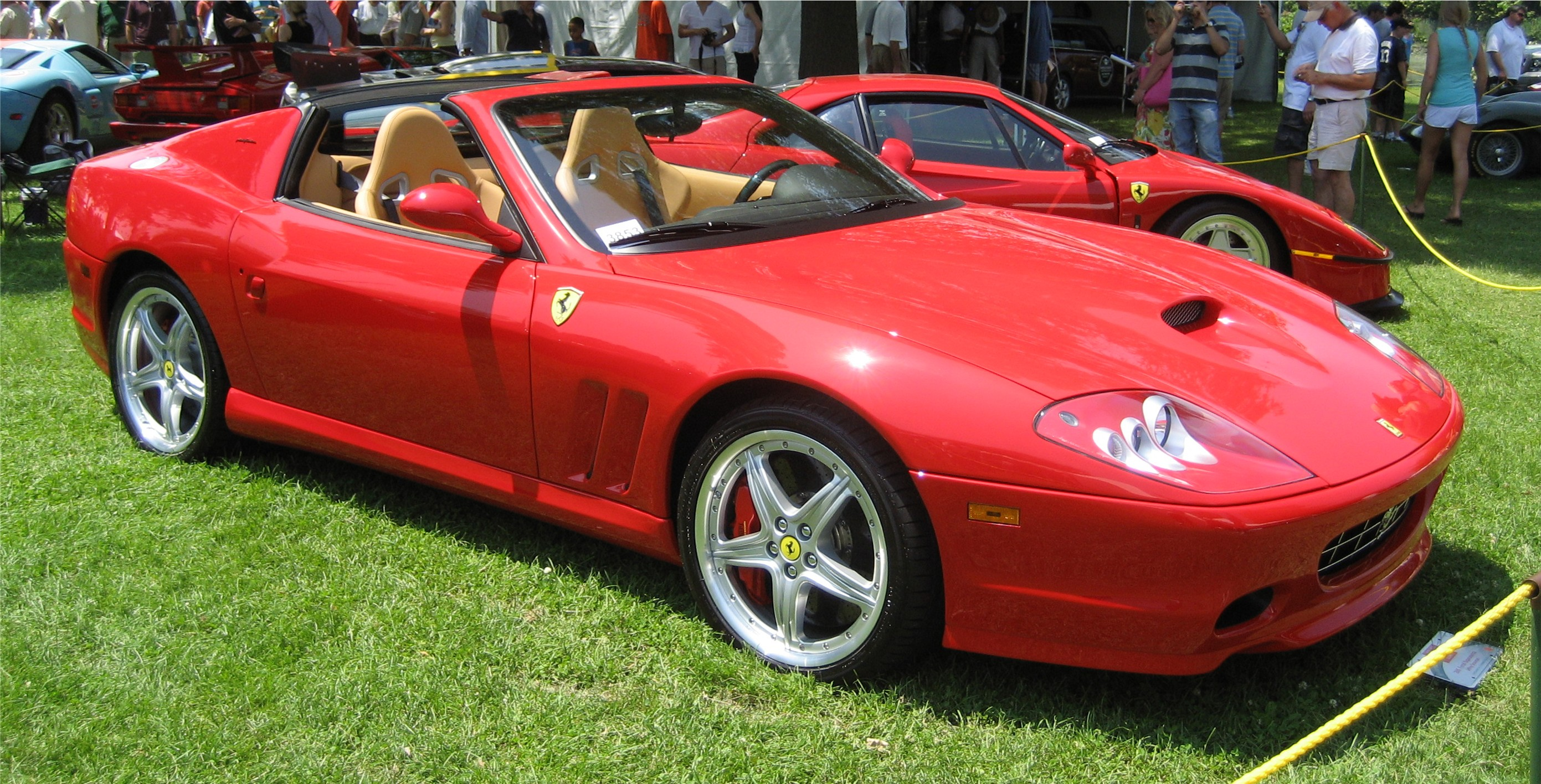 2005 Ferrari Superamerica photographed at the 2008 Greenwich Concours d'Elegance in Greenwich, Connecticut.